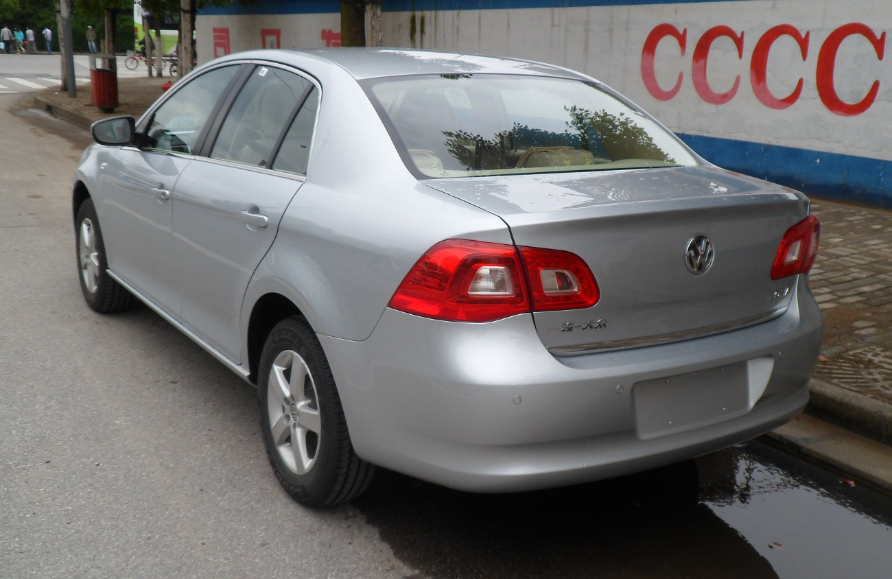 Volkswagen Bora CN II photographed in Shanghai, China.